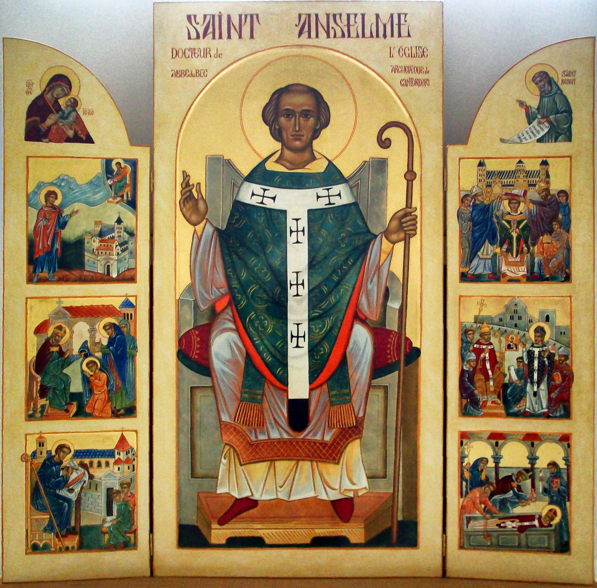 Triptych of St Anselm, prior and abbot of Bec in France and archbishop of Canterbury in England, located in Bec Abbey.